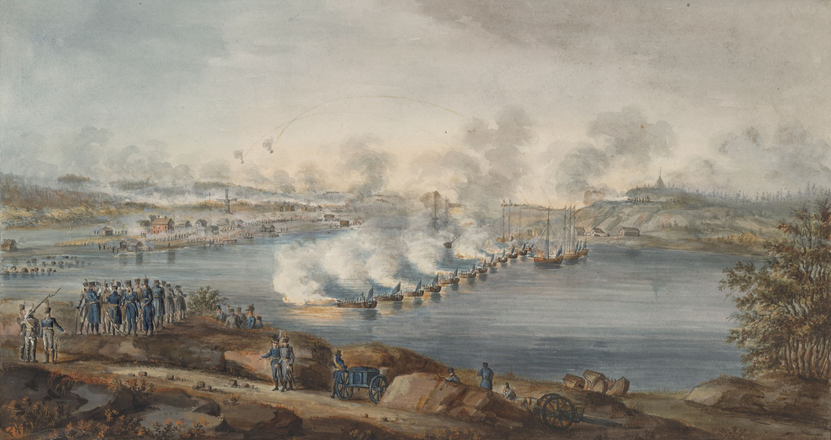 Battle of Ratan, a 19th-century painting. "Last battle of the war at Ratan near Umeå in Swedish Västerbotten"